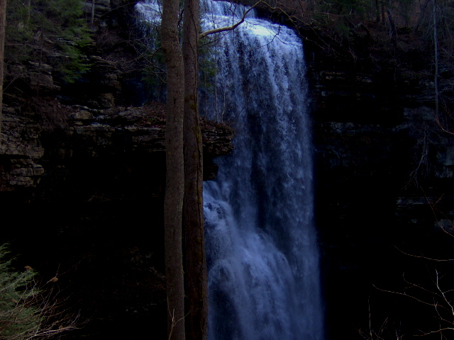 Virgin Falls in White County, Tennessee, located in the Southeastern United States. Located at the edge of the Cumberland Plateau, Virgin Falls is fed by an underground stream that emerges from a cave atop the waterfall.